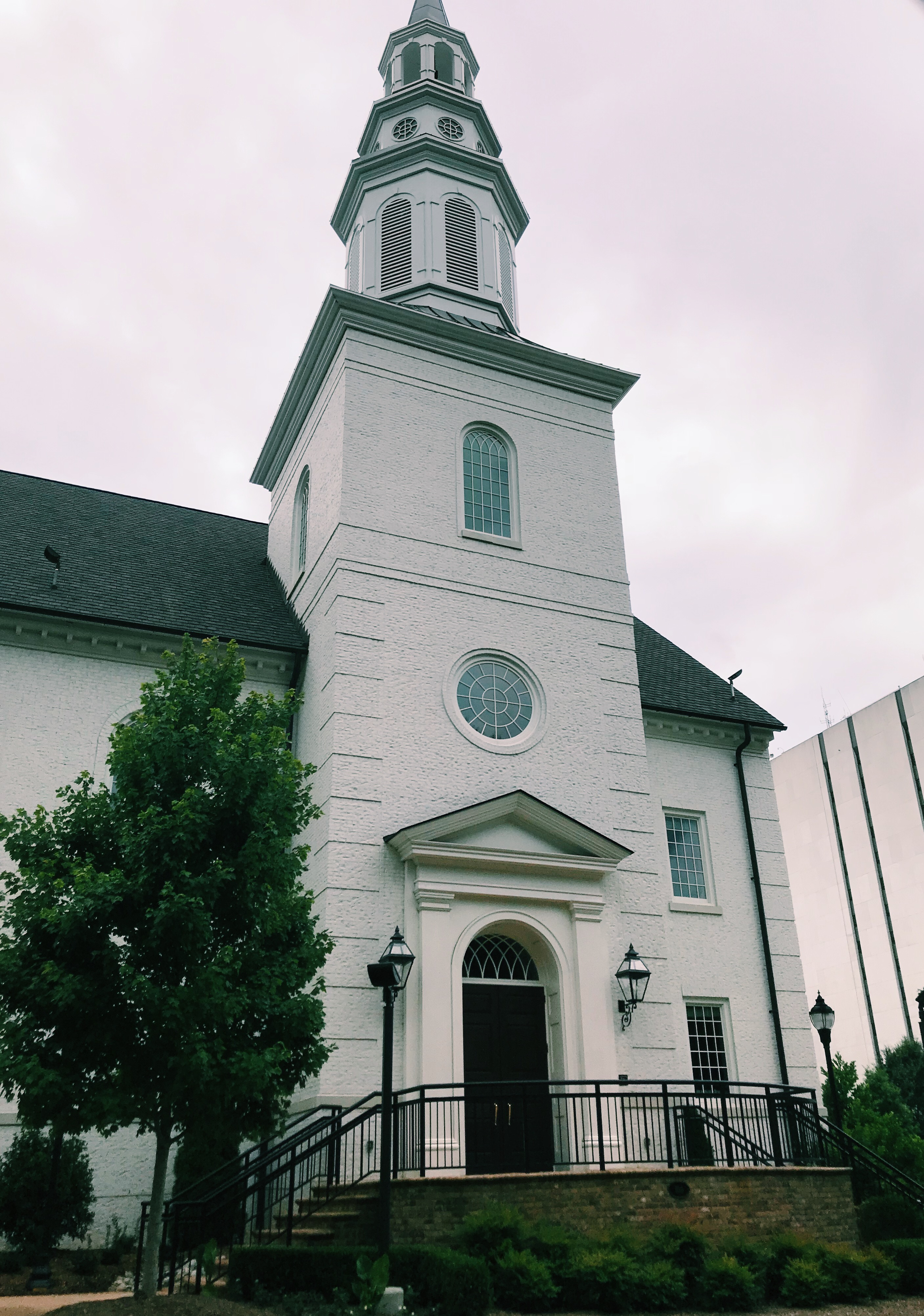 Holy Trinity Anglican Church in Raleigh, North Carolina